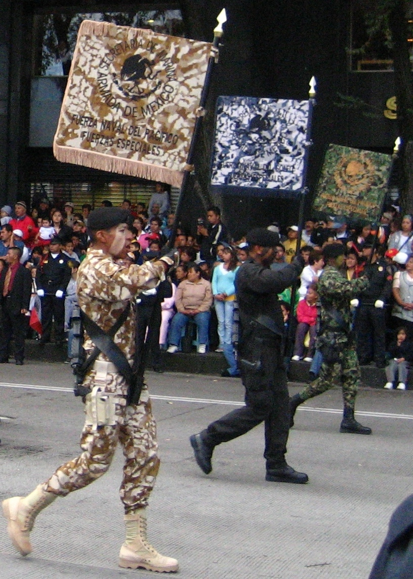 Mexican marine special forces marching in Mexico's 2009 independence day parade displaying three different types of camouflage used by the Mexican marine corps, designed by Mexico's state owned military industry SEMAR.